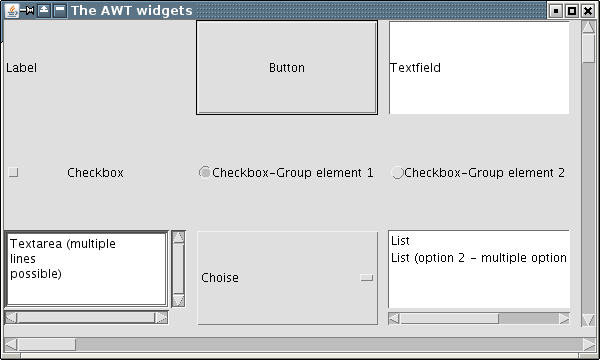 Screenshot from an AWT example program showing all the AWT widgets on a Linux PC. You can see that the Athena widgets are used.